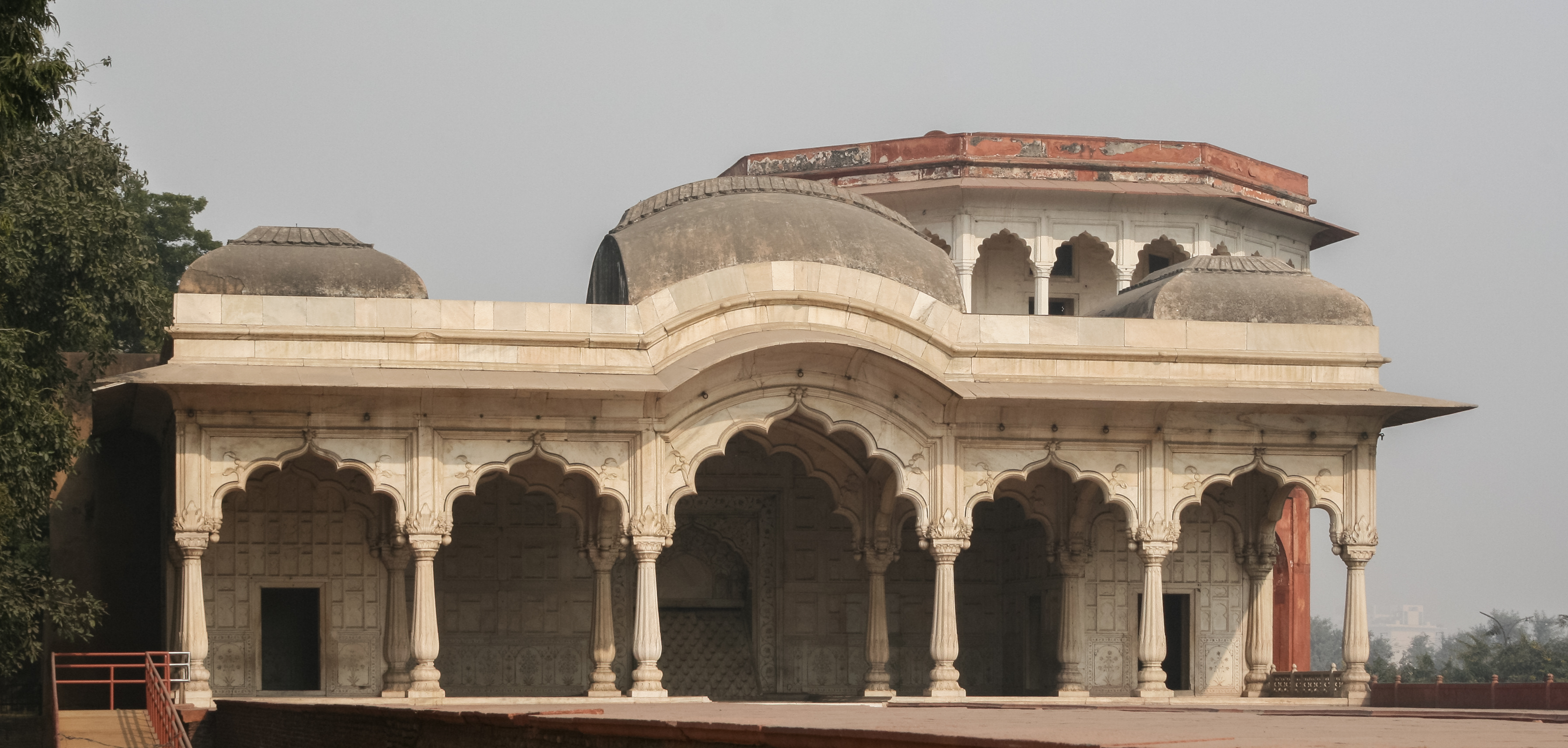 Shahi Burj, Red Fort, Delhi, India